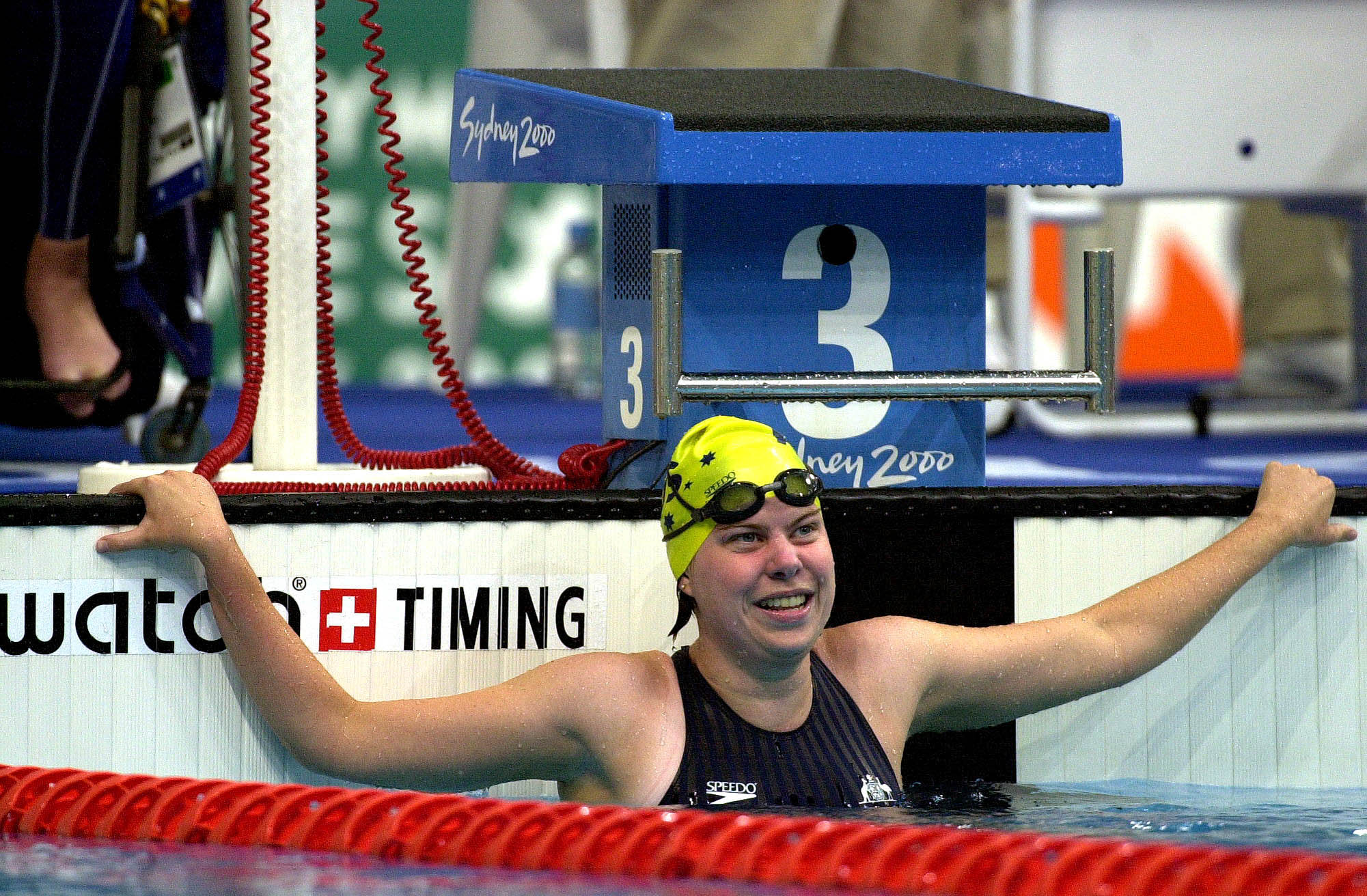 Australian swimmer Lucy Williams seen relaxing and smiling at the pool edge during the 200m medley SM6 event, 2000 Sydney Paralympic Games, Day 02